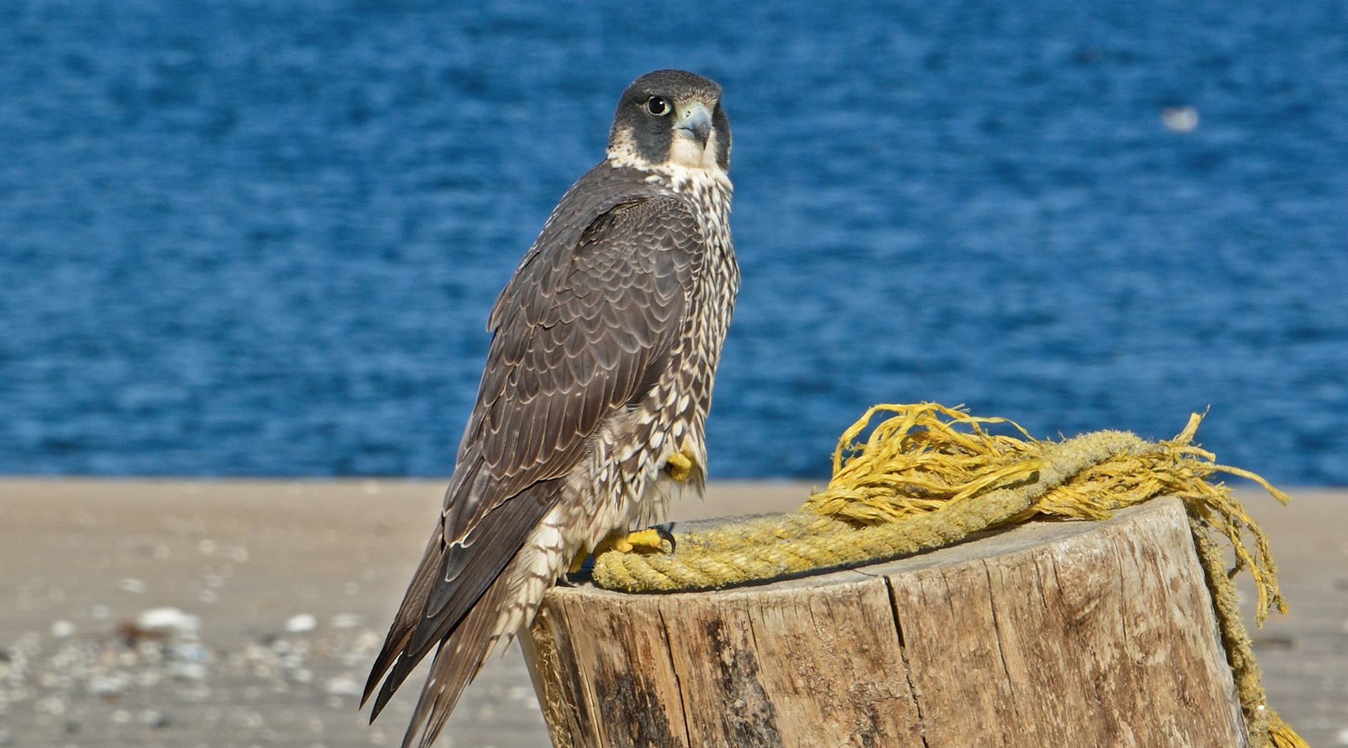 Peregrine falcon (Falco peregrinus), Sandy Hook, New Jersey, USA.